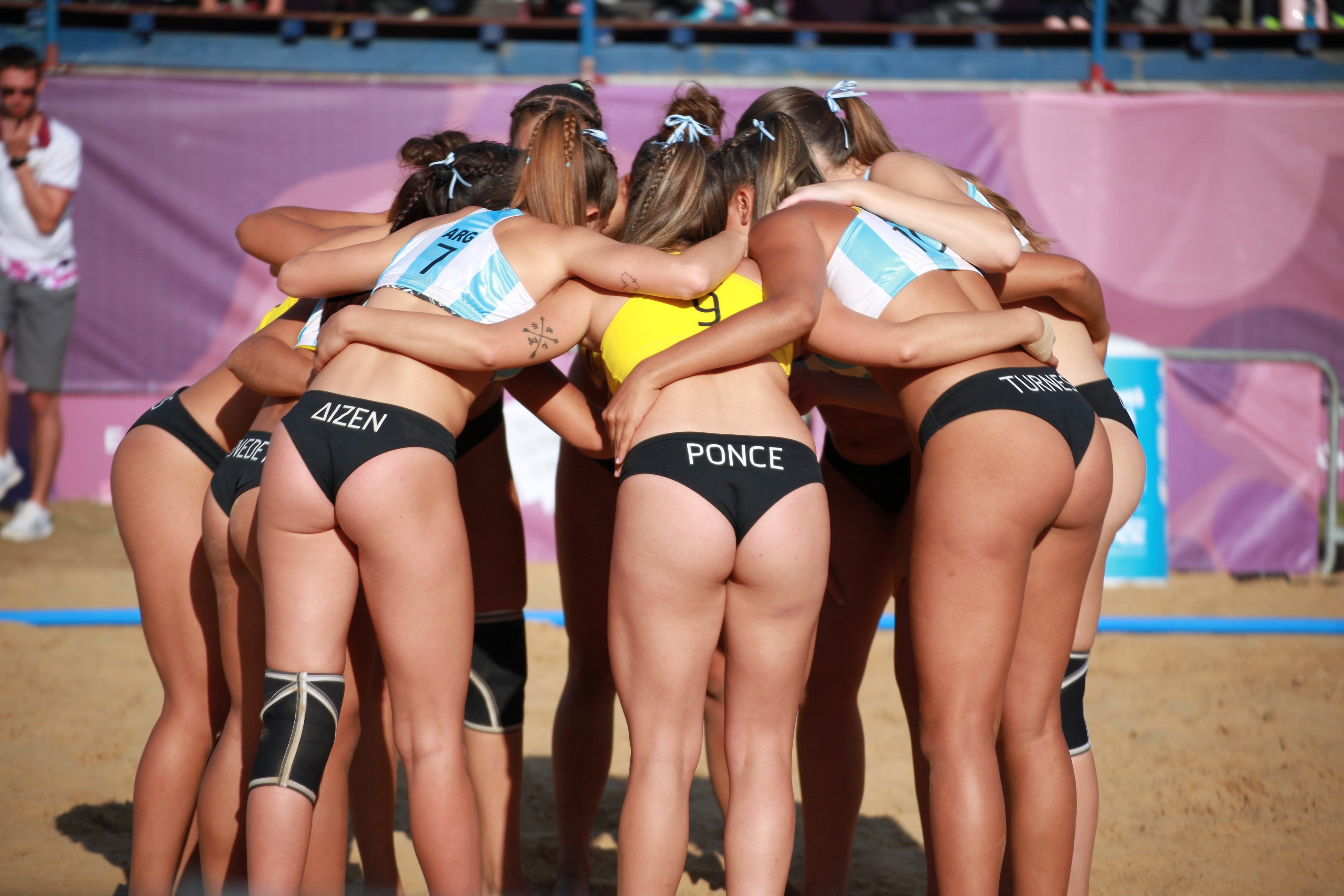 Beach handball at the 2018 Summer Youth Olympics in Buenos Aires at 13 October 2018 – Girls Gold Medal Match – Argentina-Croatia 2:0